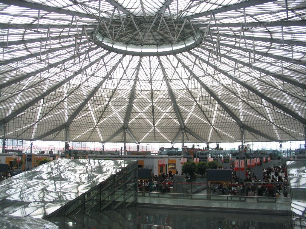 上海火車南站-大堂 Shanghai South Railway Station